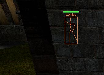 An example of an ESP hack in a 3D game, showing health bars, name tags and a bounding box.